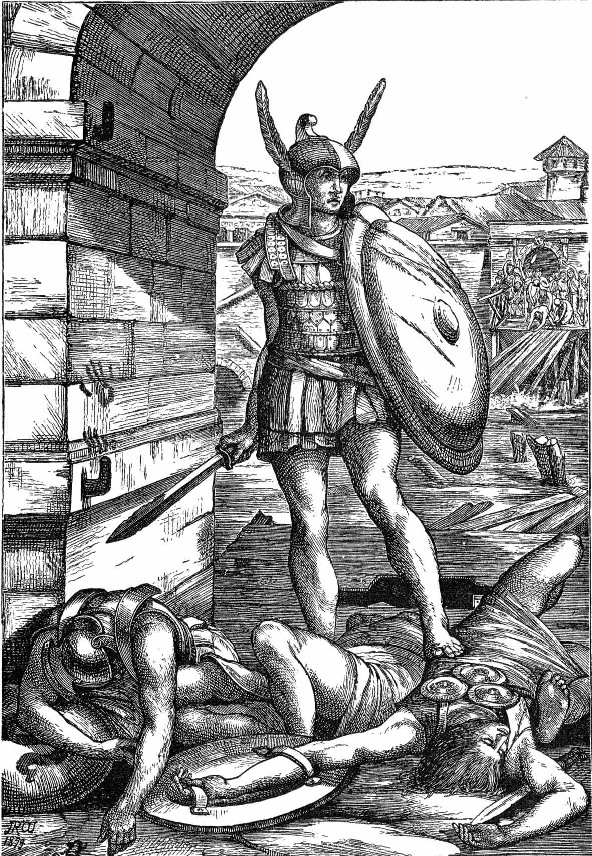 Woodcut from Engraving by John Reinhard Weguelin (1849 to 1927). Drawing is signed "JRW1879" in bottom left corner